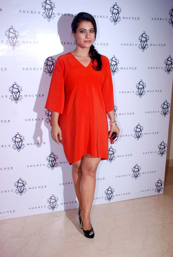 Kajol at GQ Men of the Year 2012